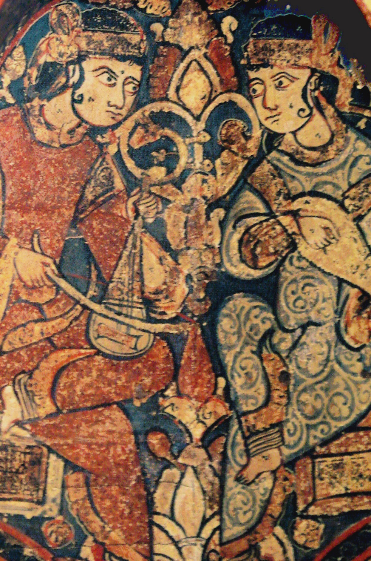 A painting of Muslim Arab Musicians At The Court Of Roger II, Sicily.